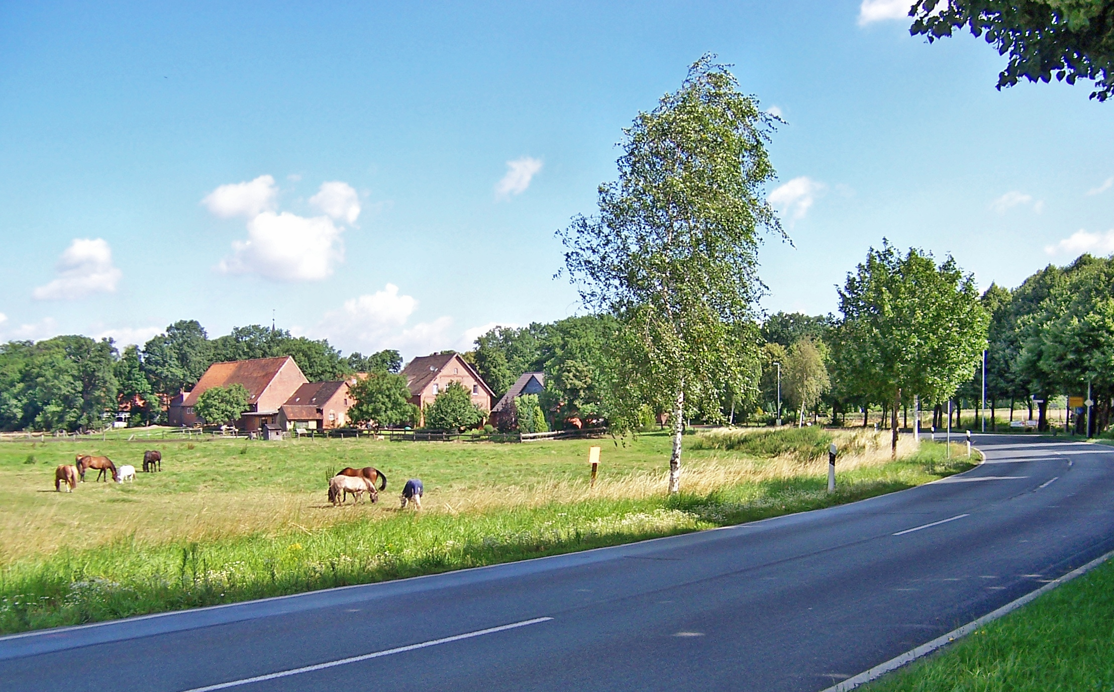 Entry of Steinwedel (Lehrte), coming from Aligse